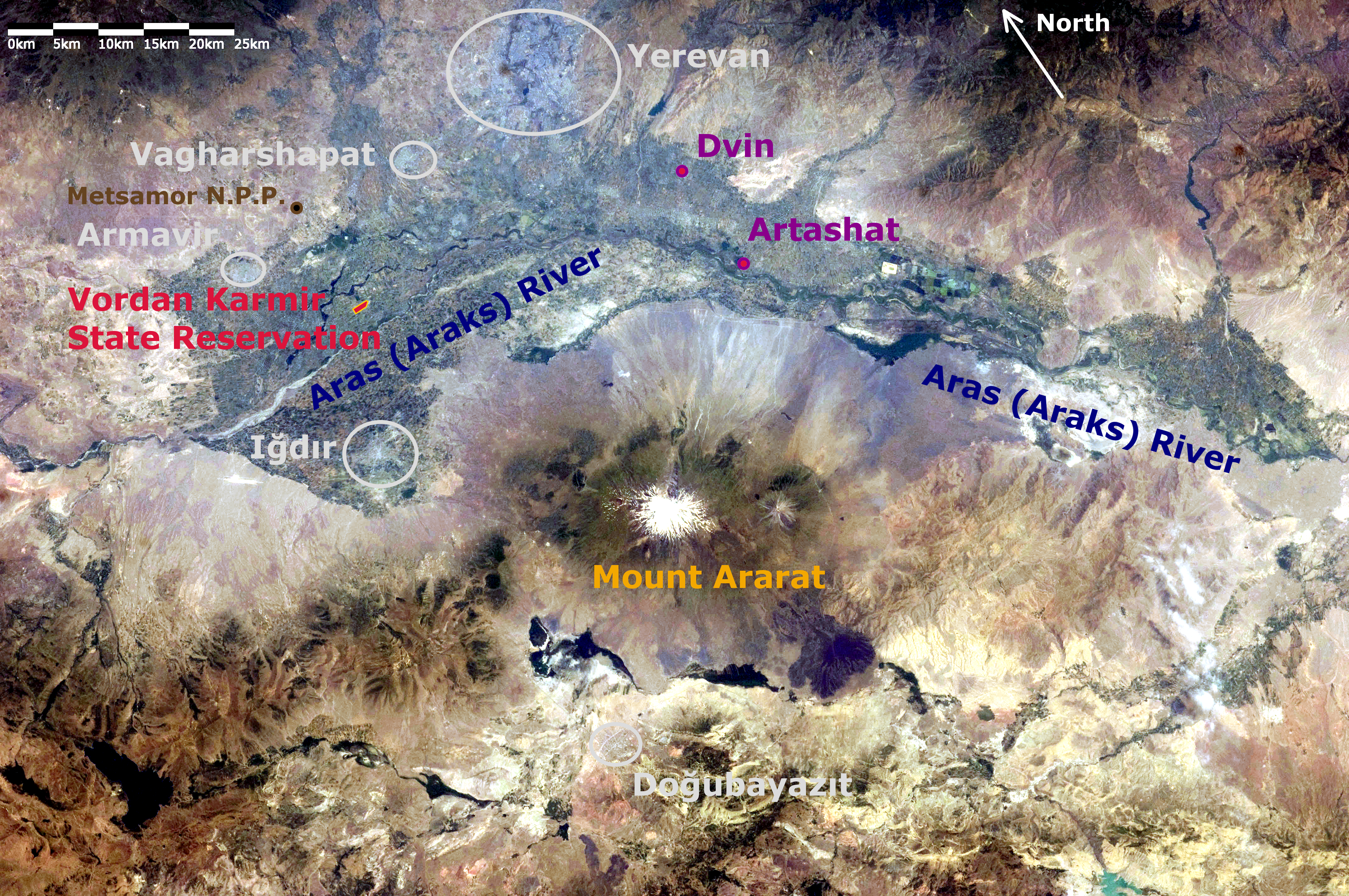 Annotated satellite image of part of the historic habitat of the insect Porphyrophora hamelii (Armenian cochineal or vordan karmir)